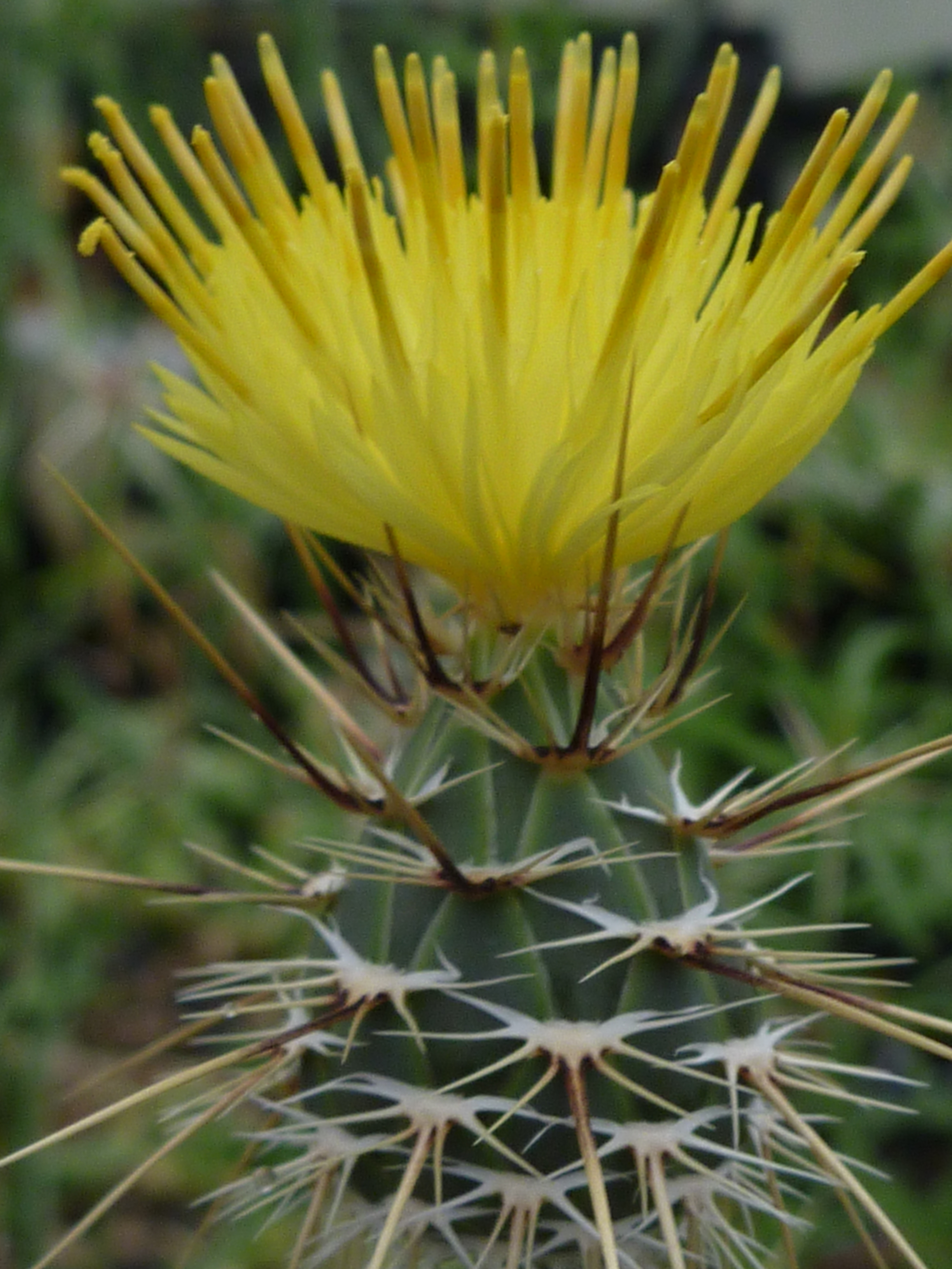 A flowering capitulum of sulfur star-thistle, Centaurea sulphurea